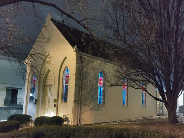 Temple Beth El - Jefferson City, MO